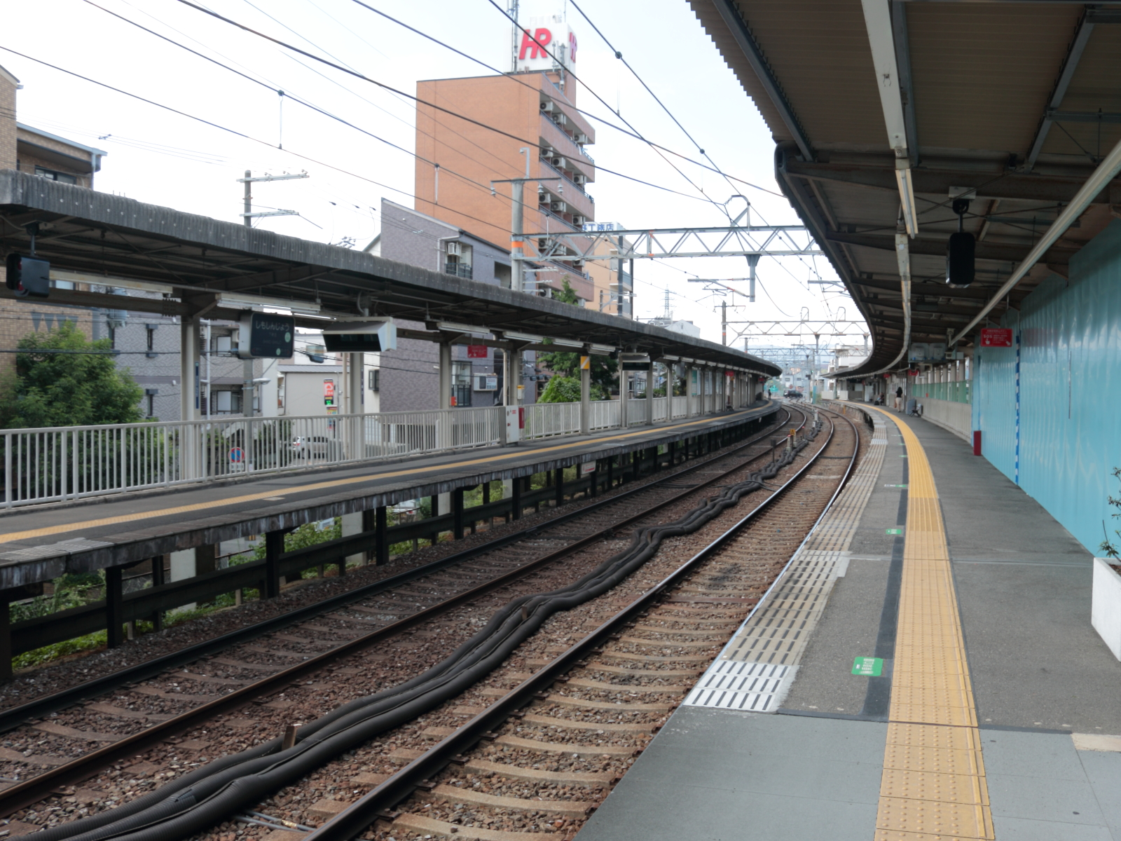 The platforms at Shimo-Shinjo Station in Osaka, Japan